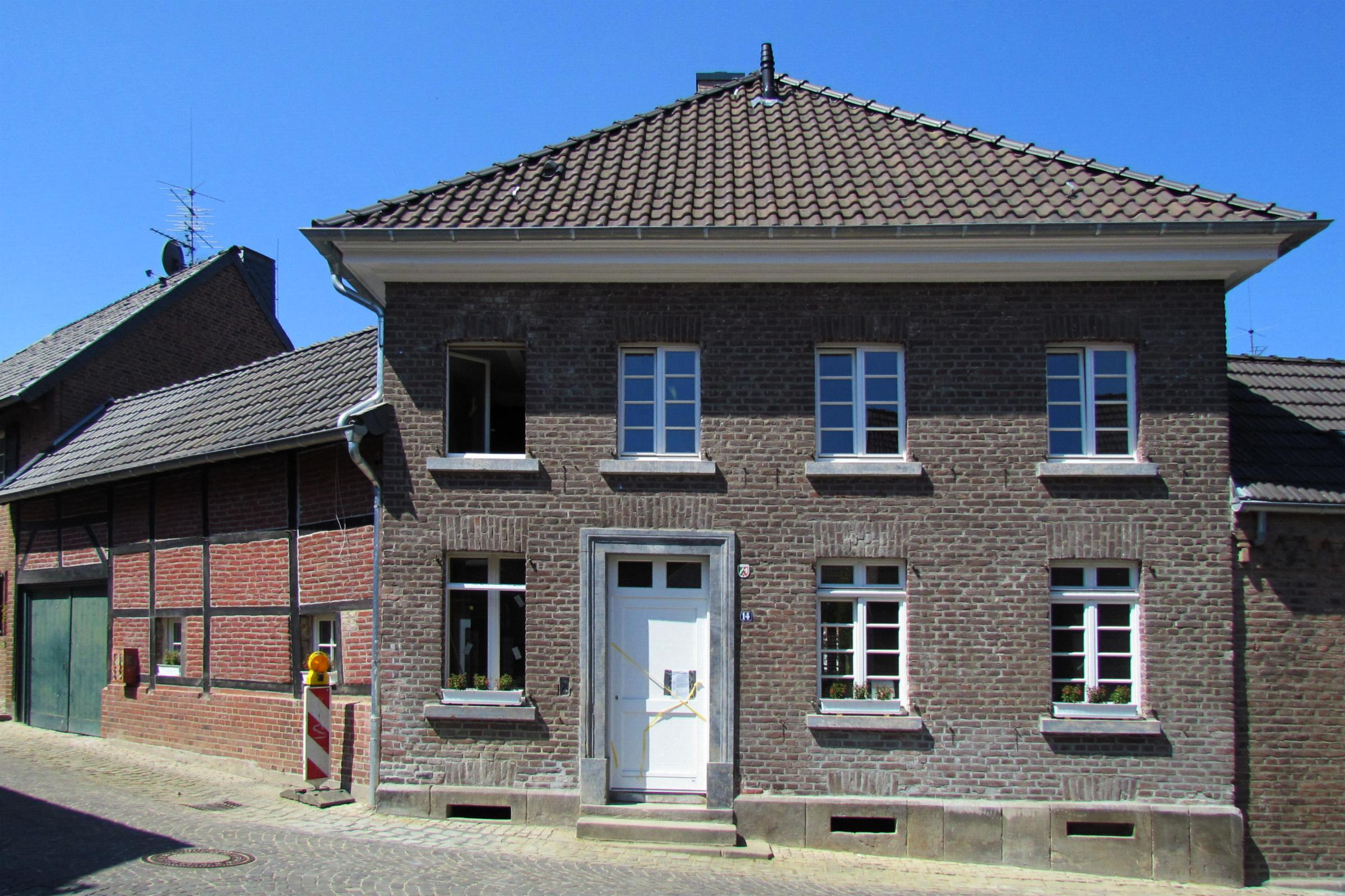 This is a photograph of an architectural monument.It is on the list of cultural monuments of Korschenbroich